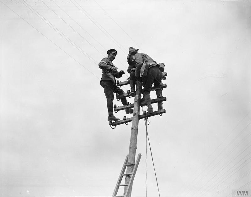 The Allied Armies on the Western Front, 1914-1918 British and American (telephone) signalmen fixing up air-line. Near Contay, 6 July,1918.